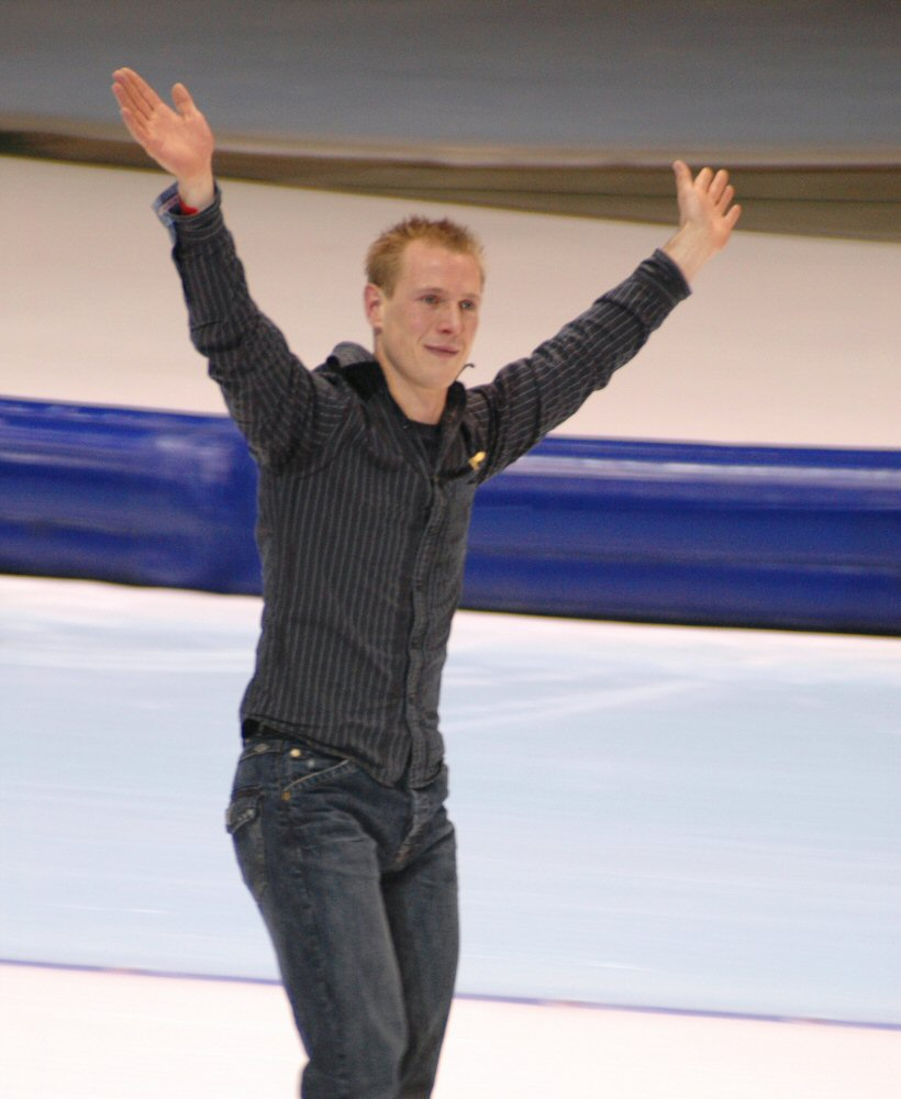 Jochem Uytdehaage (NED) quits at the WCh Allround in Thialf (Heerenveen, The Netherlands)